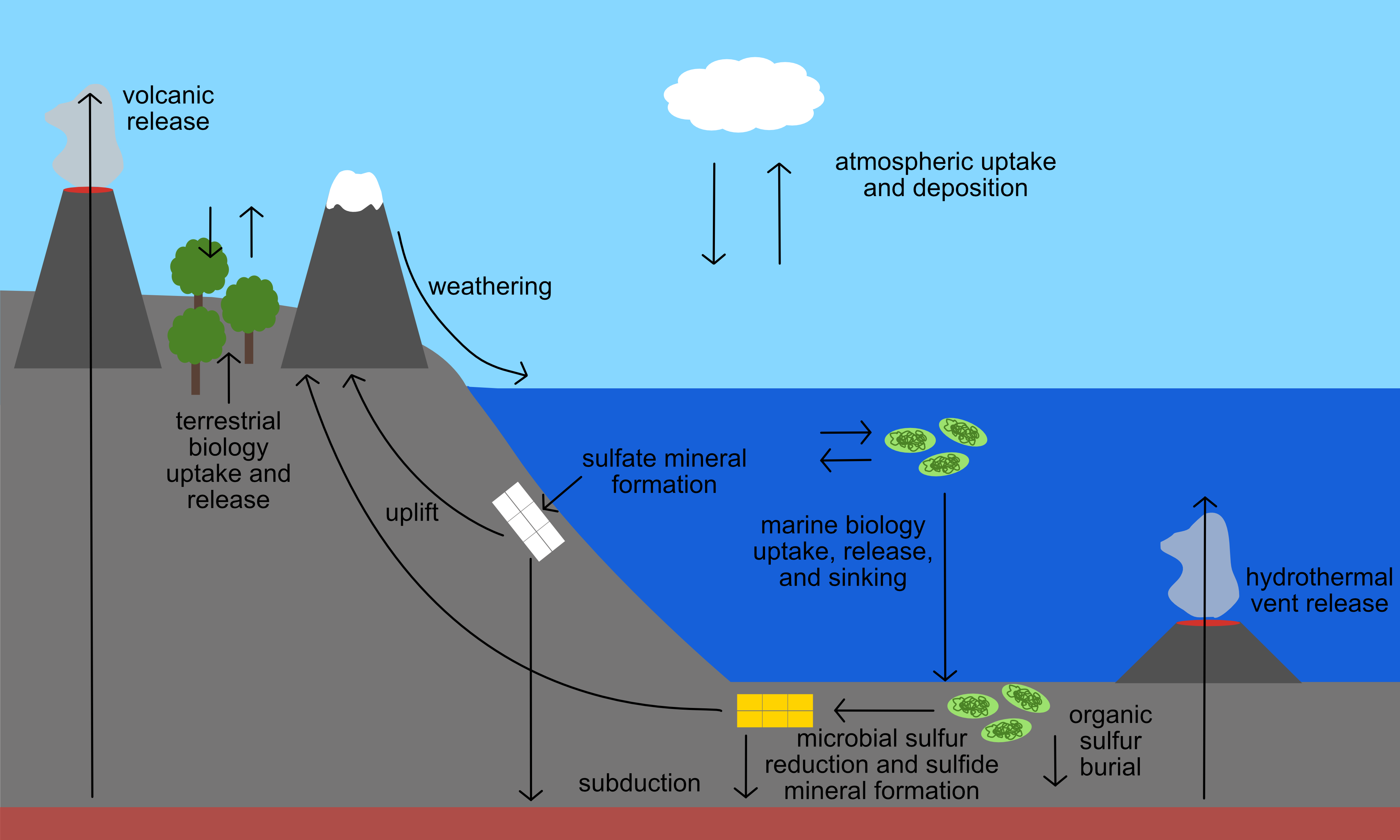 A simple illustration of some common processes in the biogeochemical cycling of sulfur.